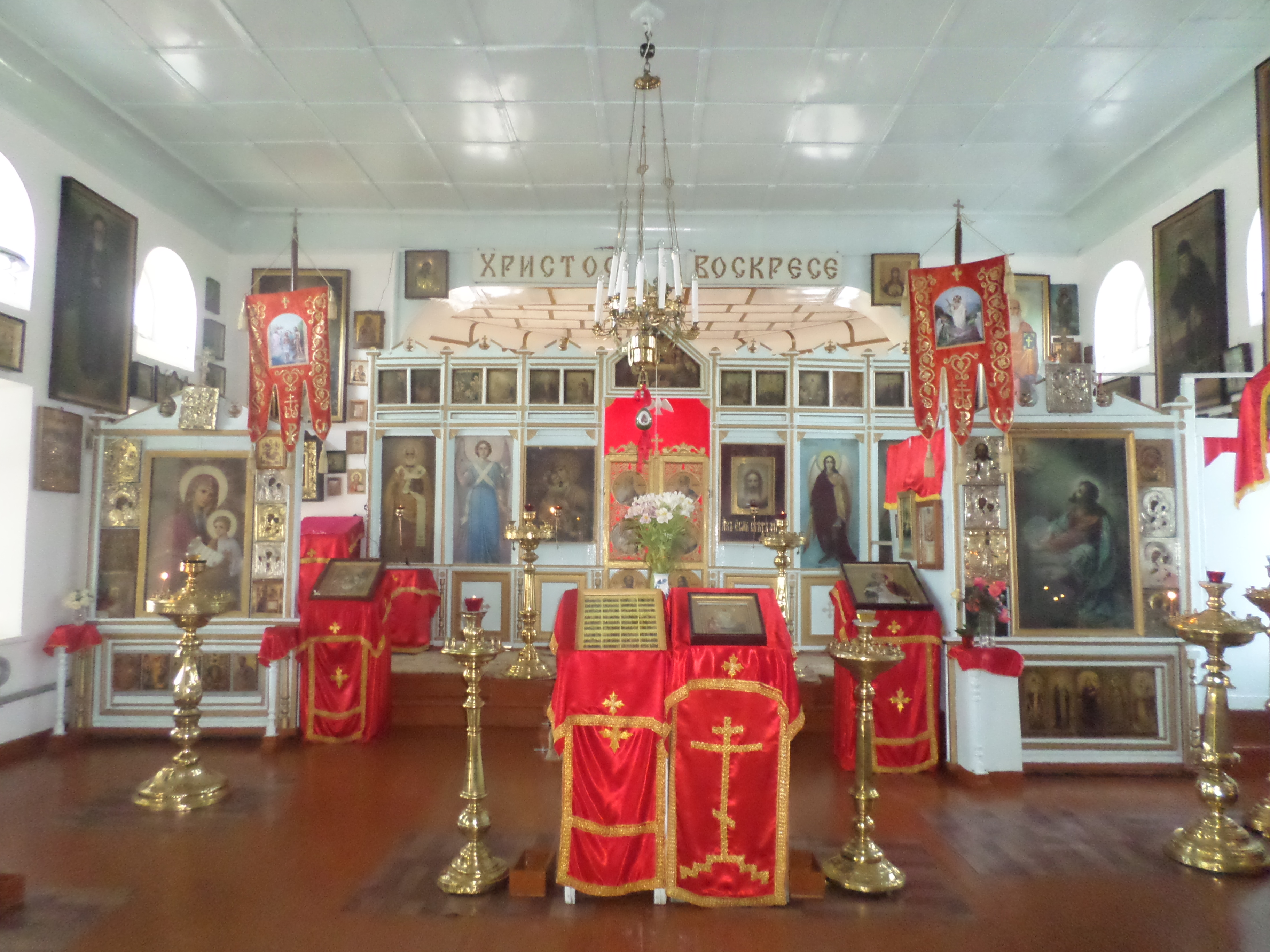 Church of St. George Victorious in Samarkand